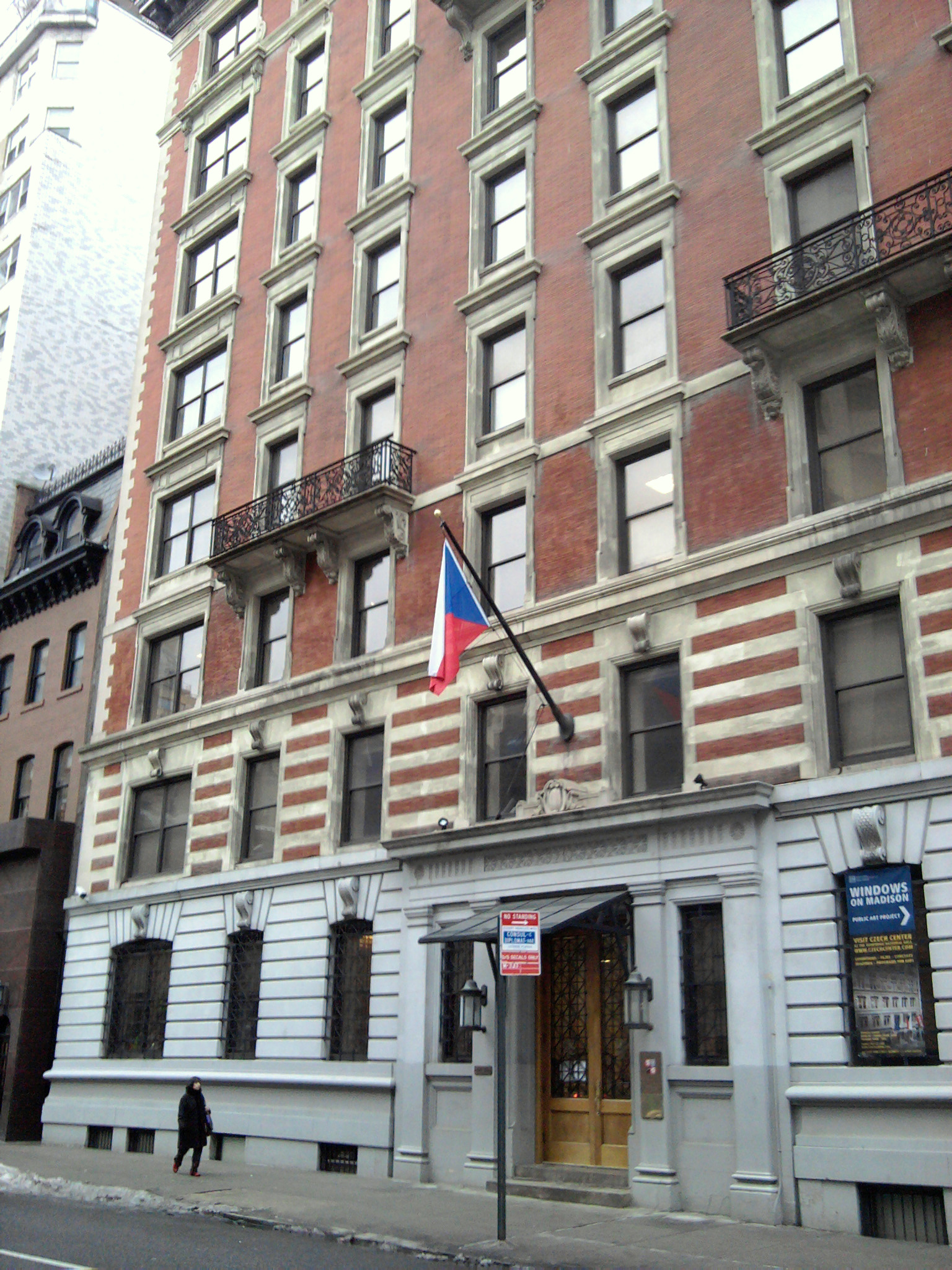 Looking east from Madison Avenue at Czech Center on a cloudy afternoon after snow.